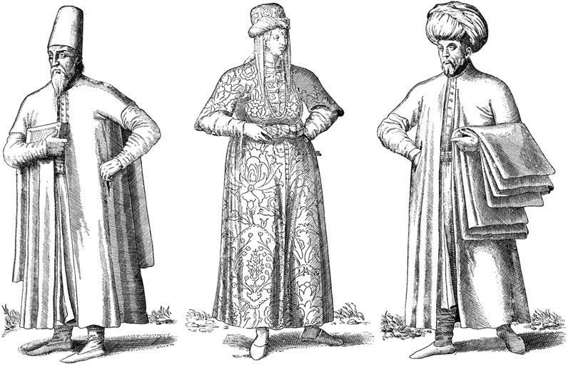 Jewish subjects of the Ottoman Empire, seventeenth century. From the 1901-1906 Jewish Encyclopedia, now in the public domain. Category:Jewish Encyclopedia images